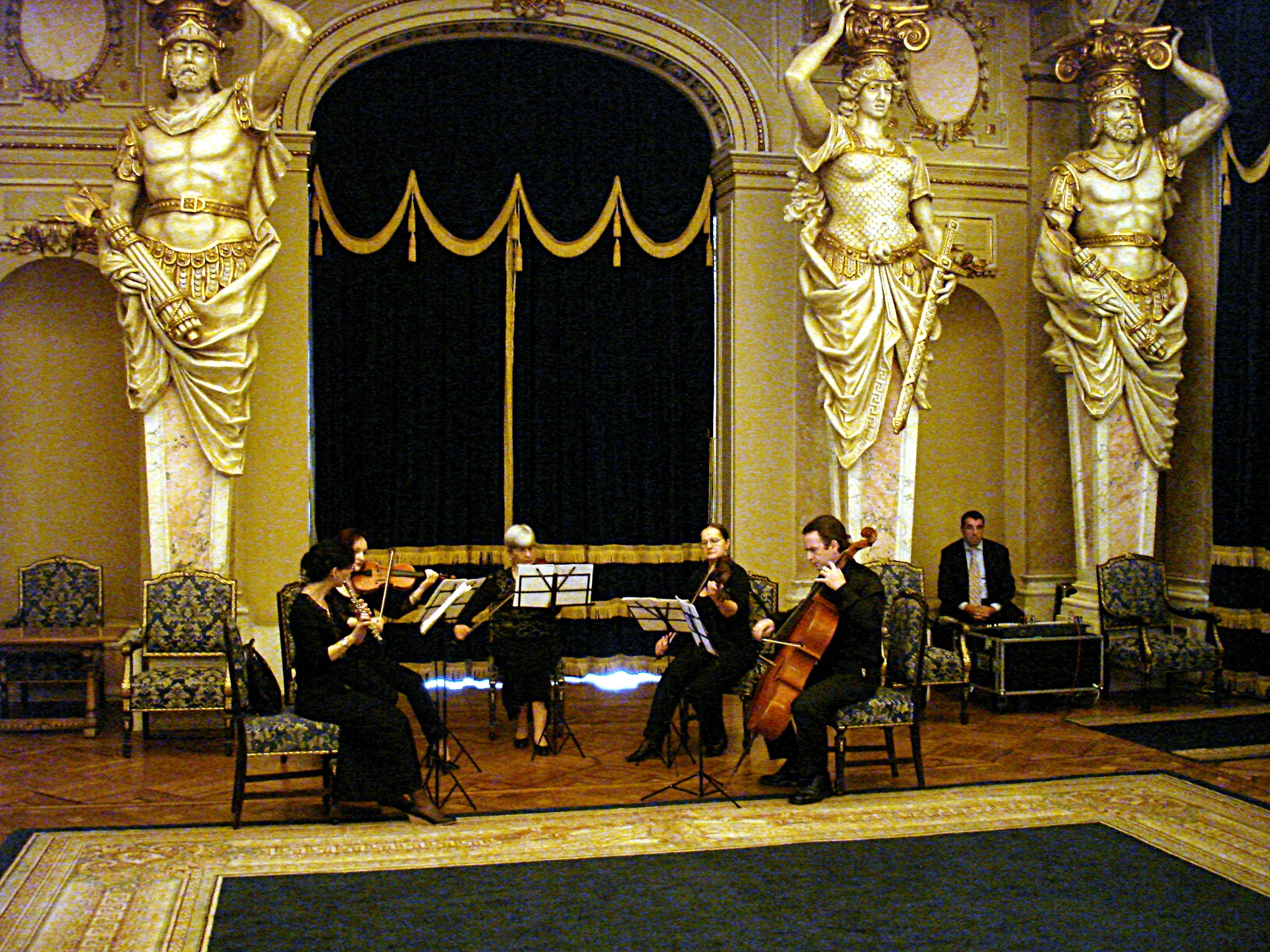 The Marble Hall of the National Military Circle in Bucharest, with the occasion of the festivity for the 150th anniversary of the establishment of the National Military Library